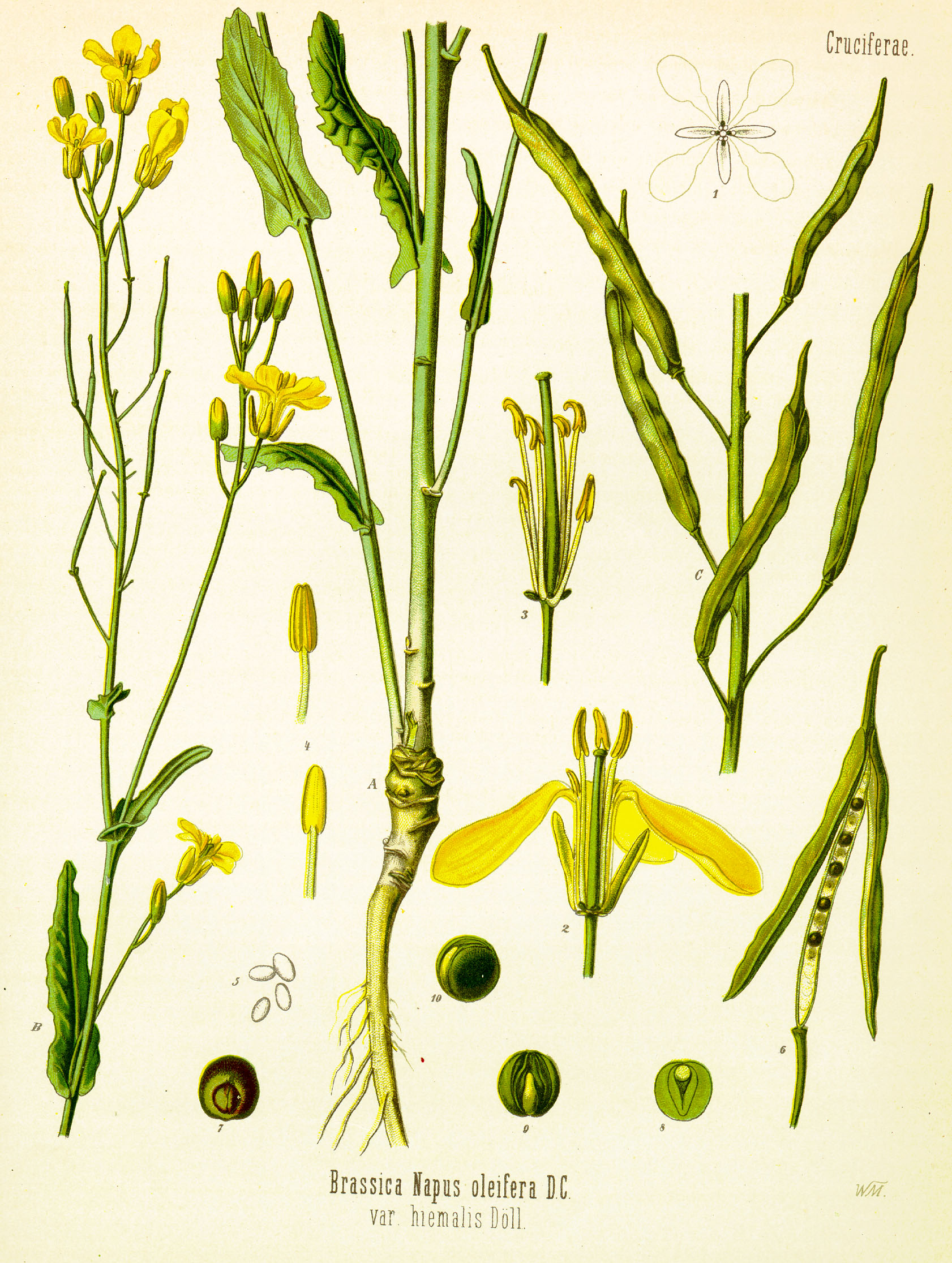 Winter rape.[1]